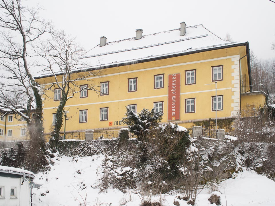 Former administration building of the saline, today museum